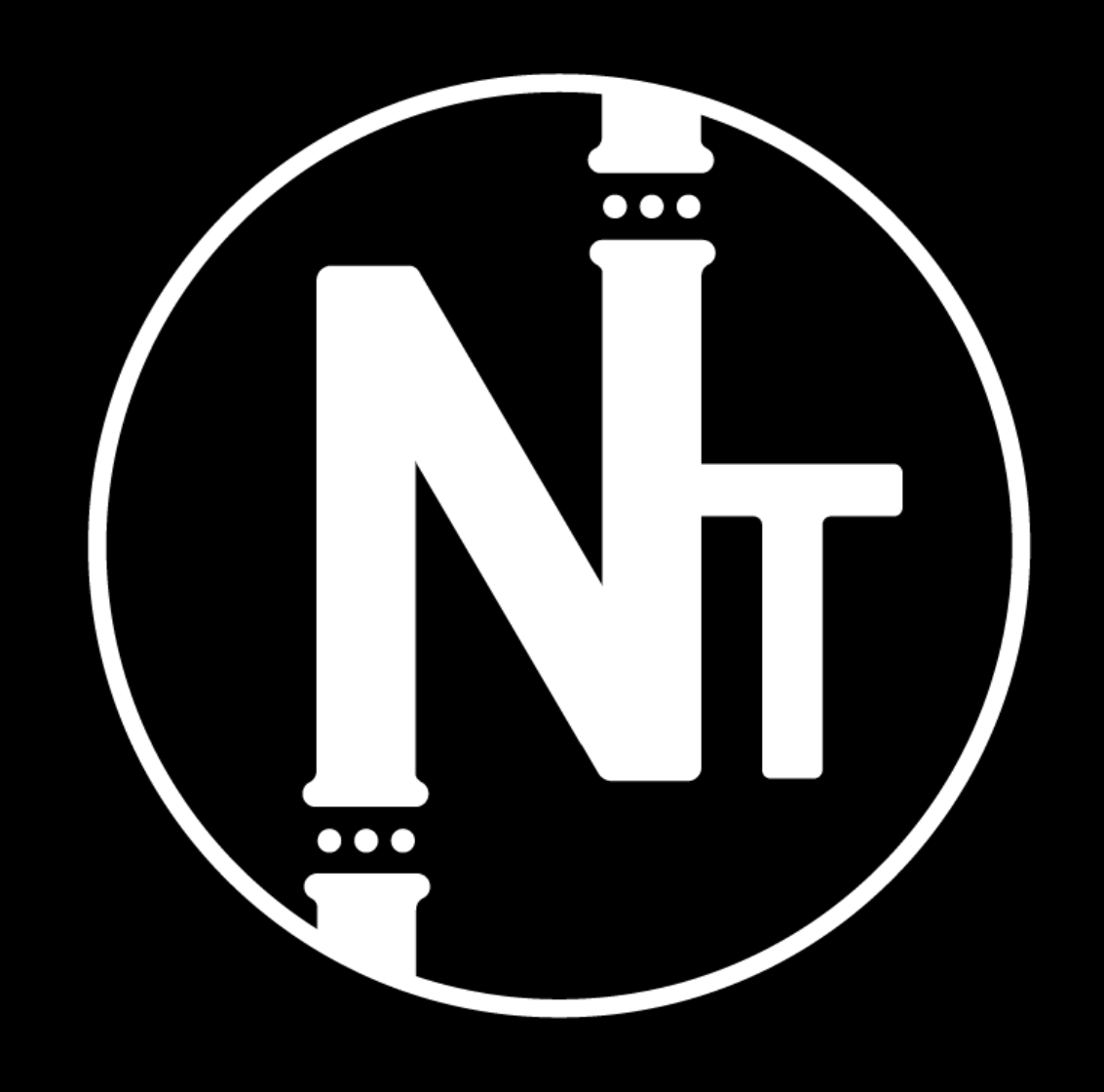 This is the squared logo of NGO NT